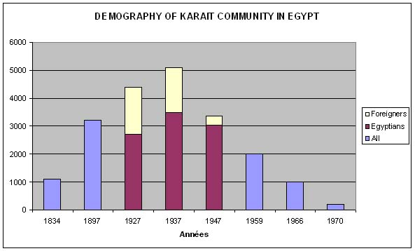 Evolution of the karaite population of Egypt beetween 1834 and 1970.